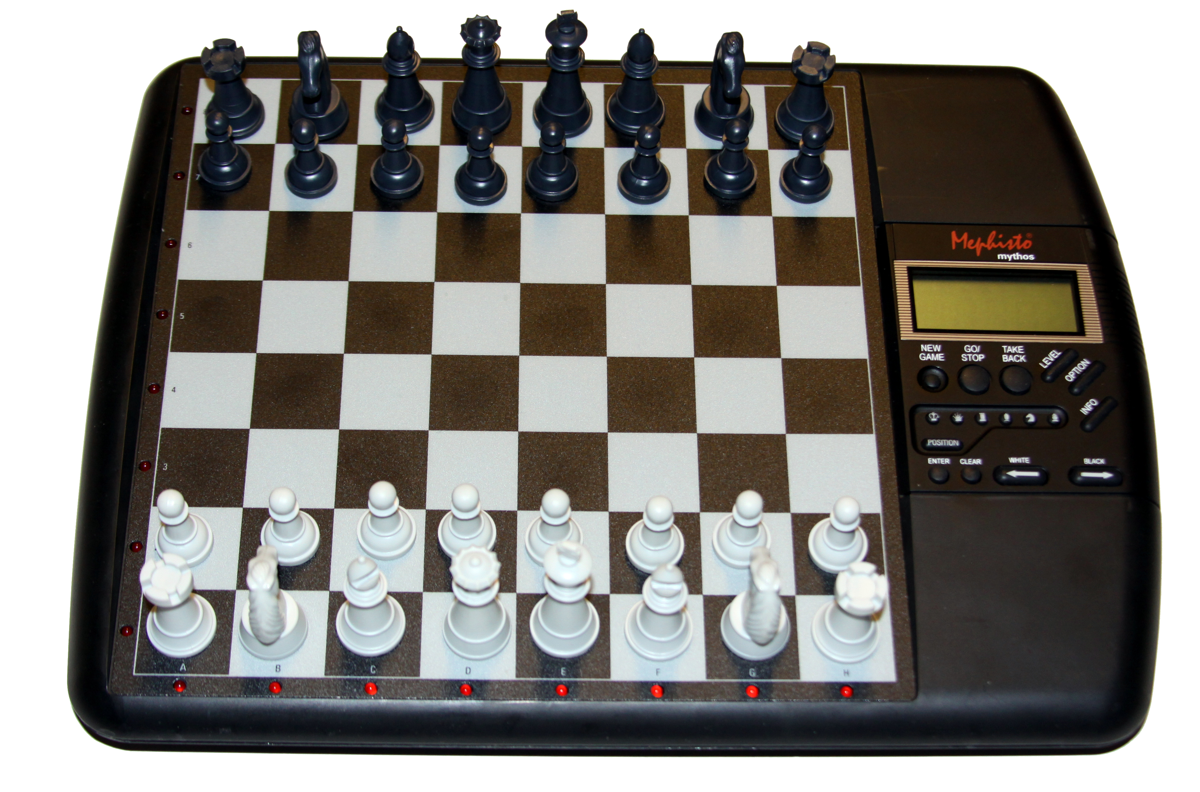 Mephisto Mythos chess computer (1995), produced after the Mephisto brand had been acquired by Saitek in 1994. The chess program is identical to the Saitek GK 2000.